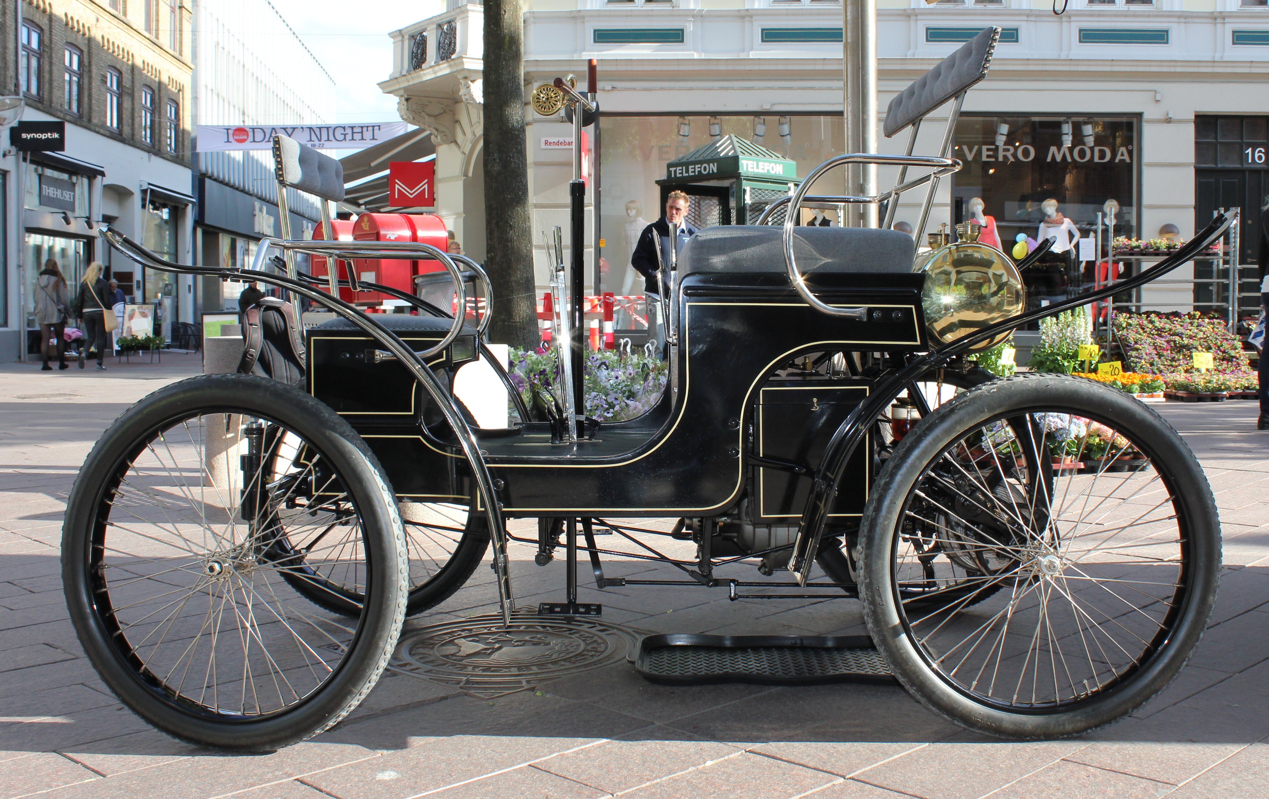 Brems No. 1 Type A the 1900. The car is manufactured by Julius Brems, who started the first carfactory in Viborg, Denmark. The car was first tested on 5th juni 1900th The car had two forward gears and a 2-cylinder engine. Top speed was approximately. 26 km / h and run around 225 km on a tank, and around. 21 km per liter of gasoline. Julius Brems produced 8 cars until the year the 1908. The picture shows a newly buildt copy and is here shown in the streets of Kolding.